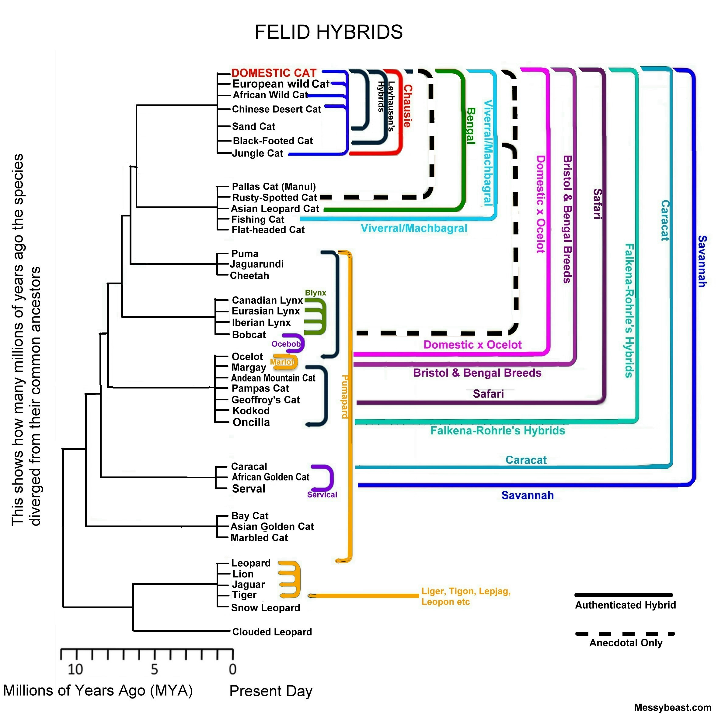 Chart showing all authenticated felid hybrids including the relationship between the wildcat species involved (compiled from multiple sources). Other information Diagram is based on compiled info on authenticated felid hybrids to provide "at a glance" information. As author I am releasing it into public domain. It can be copied to Wikimedia Commons if wished.